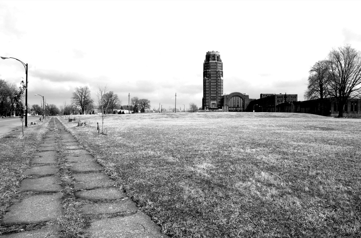 Buffalo Central Terminal in Buffalo, New York as seen from Memorial Drive.